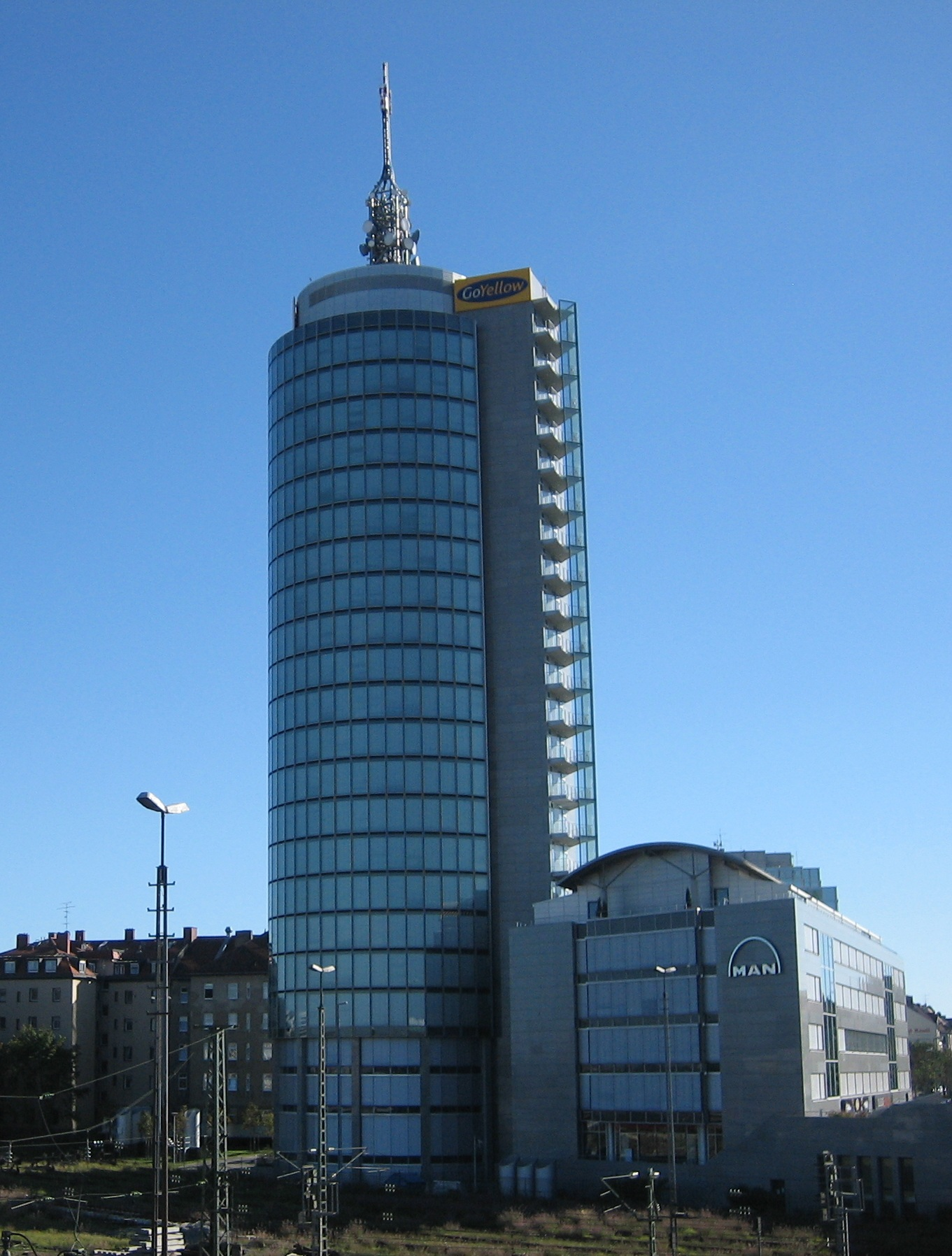 Munich City Tower